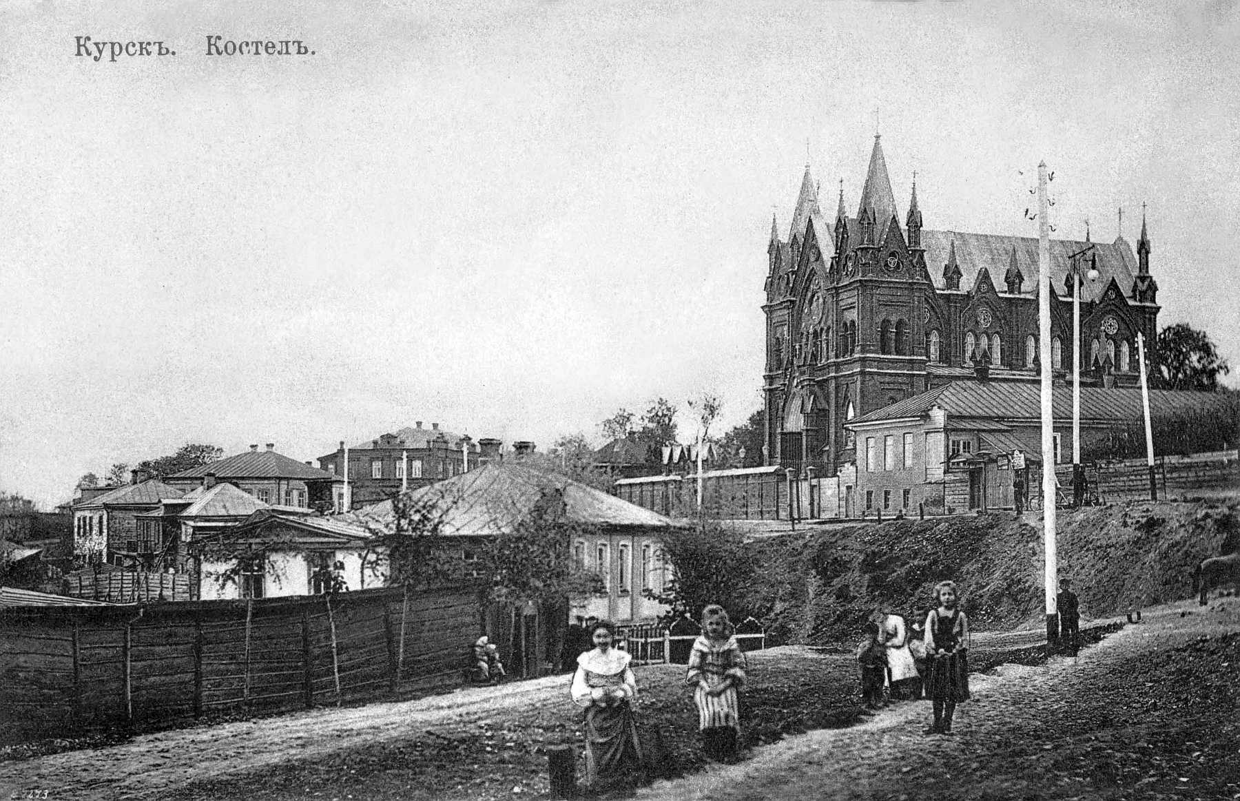 Roman Catholic church of the Assumption of the Virgin Mary in Kursk (Russia). View from Nizhnyaya Gostinnaya street. Postcard made at the begining of the XX century.